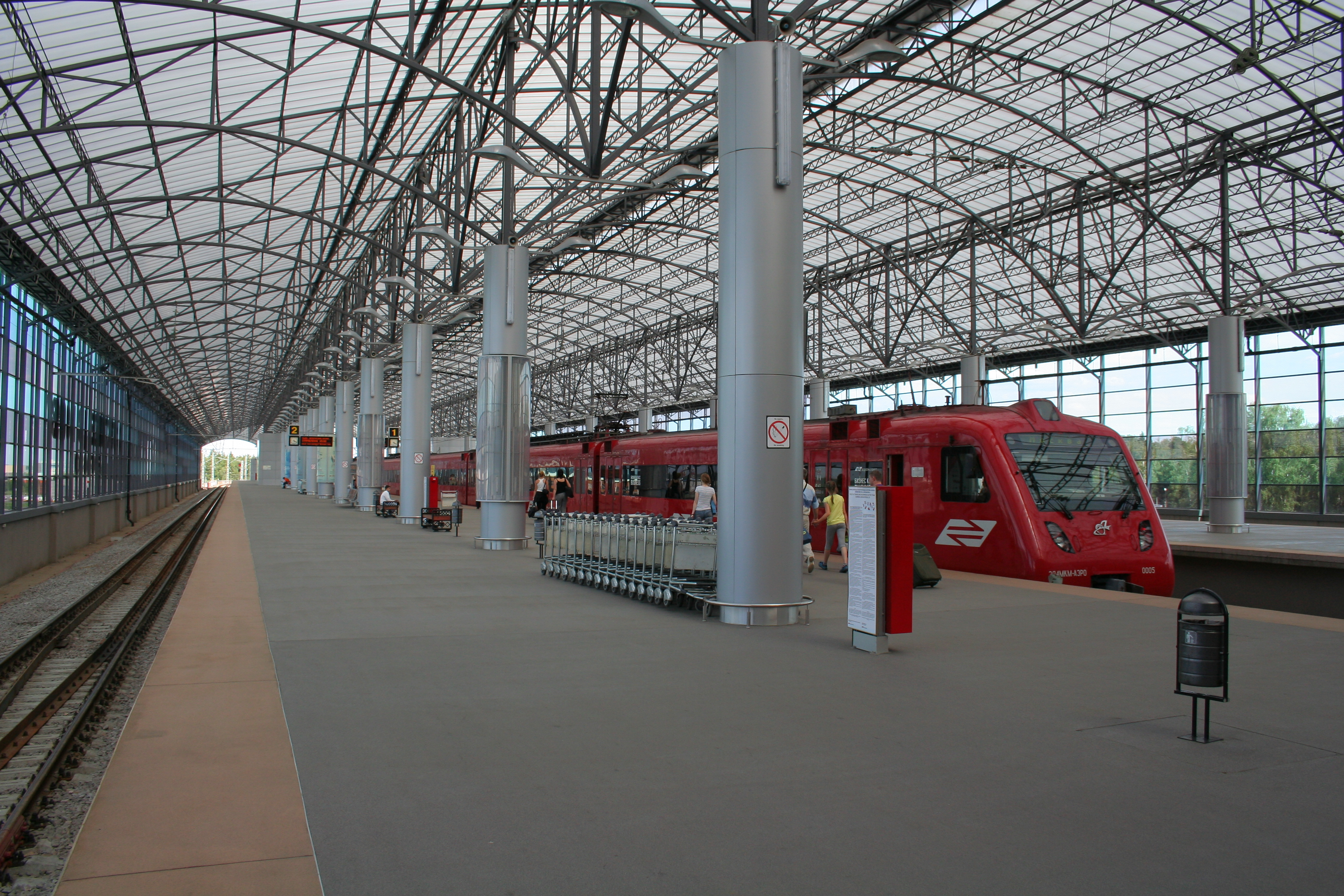 Sheremetyevo Airport of Moscow. Aeroexpress Terminal. The platforms.